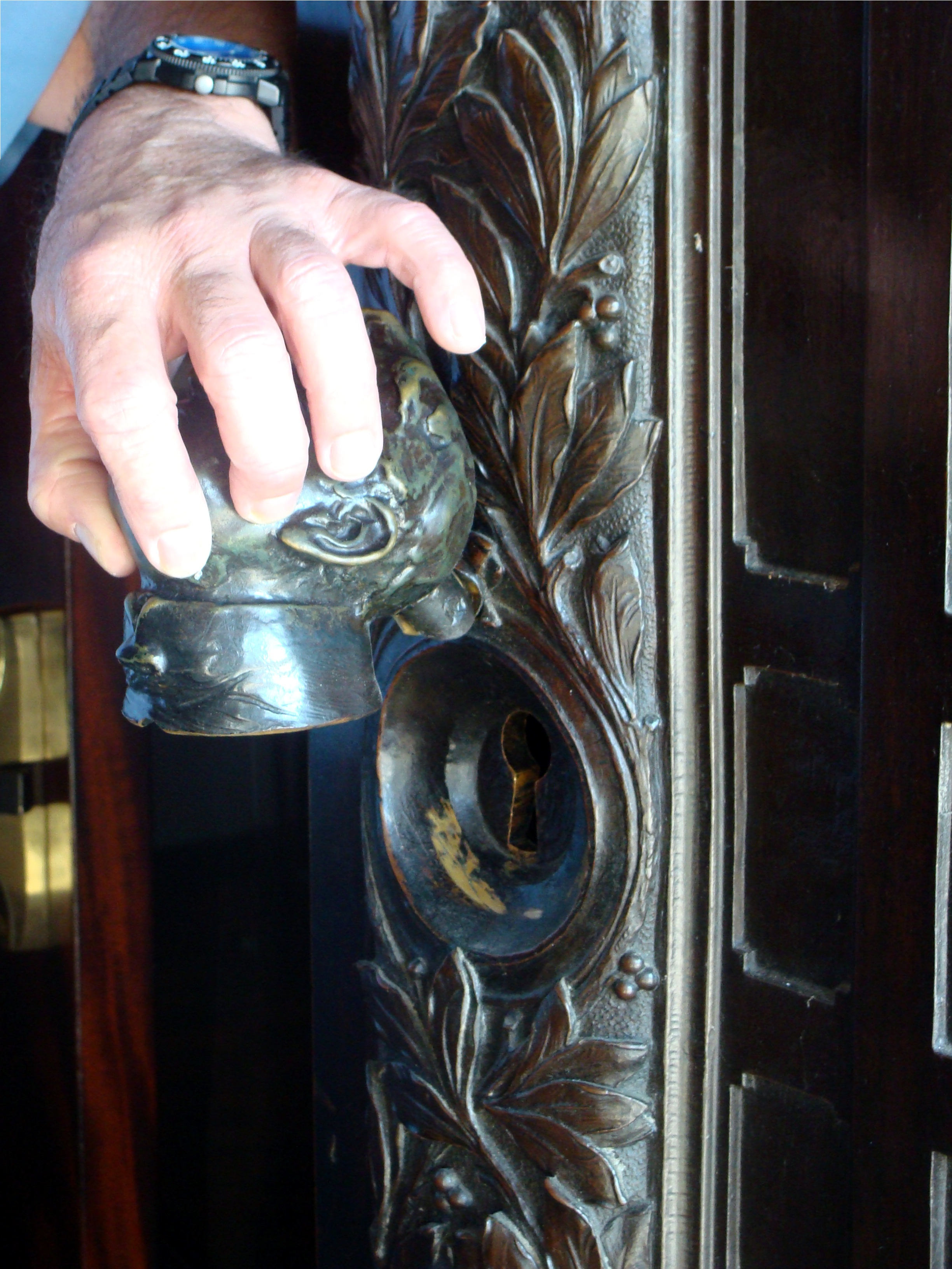 The keyhole on the front door of the Pennsylvania State Capitol in Harrisburg, Pennsylvania is hidden behind a bust of the Capitol's architect Joseph Miller Huston.